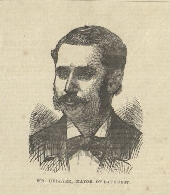 1880 image of Lord Mayor of Bathurst, Thomas Henry Hellyer